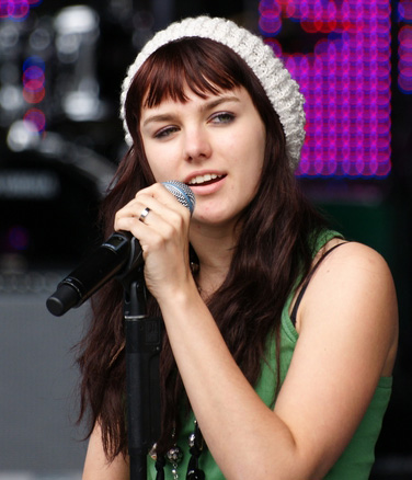 Ewa Farna; on June 10, 2009; at Opole festival, Poland